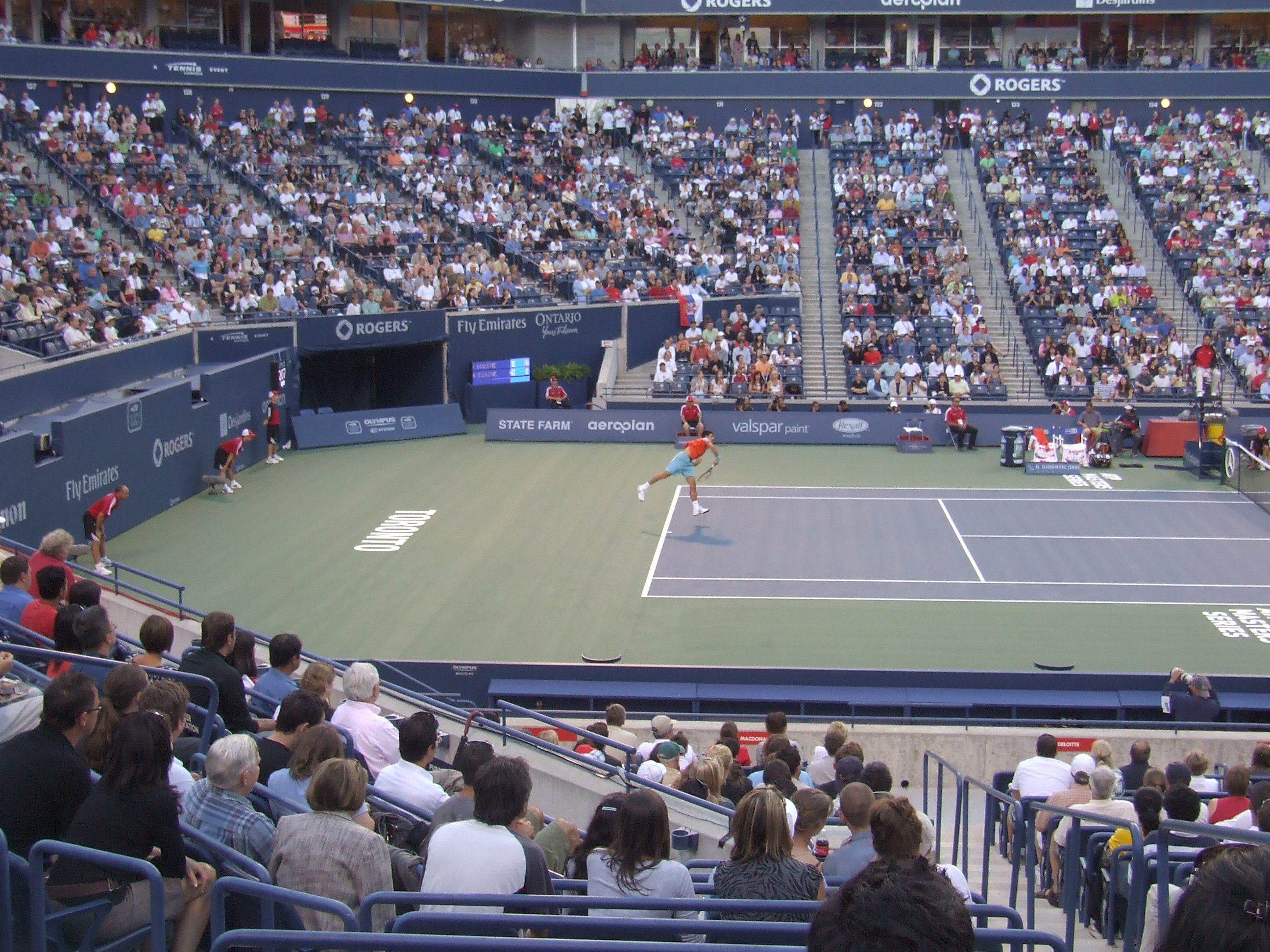 Novak Djokovic, Rogers Cup, York, Toronto, Canada